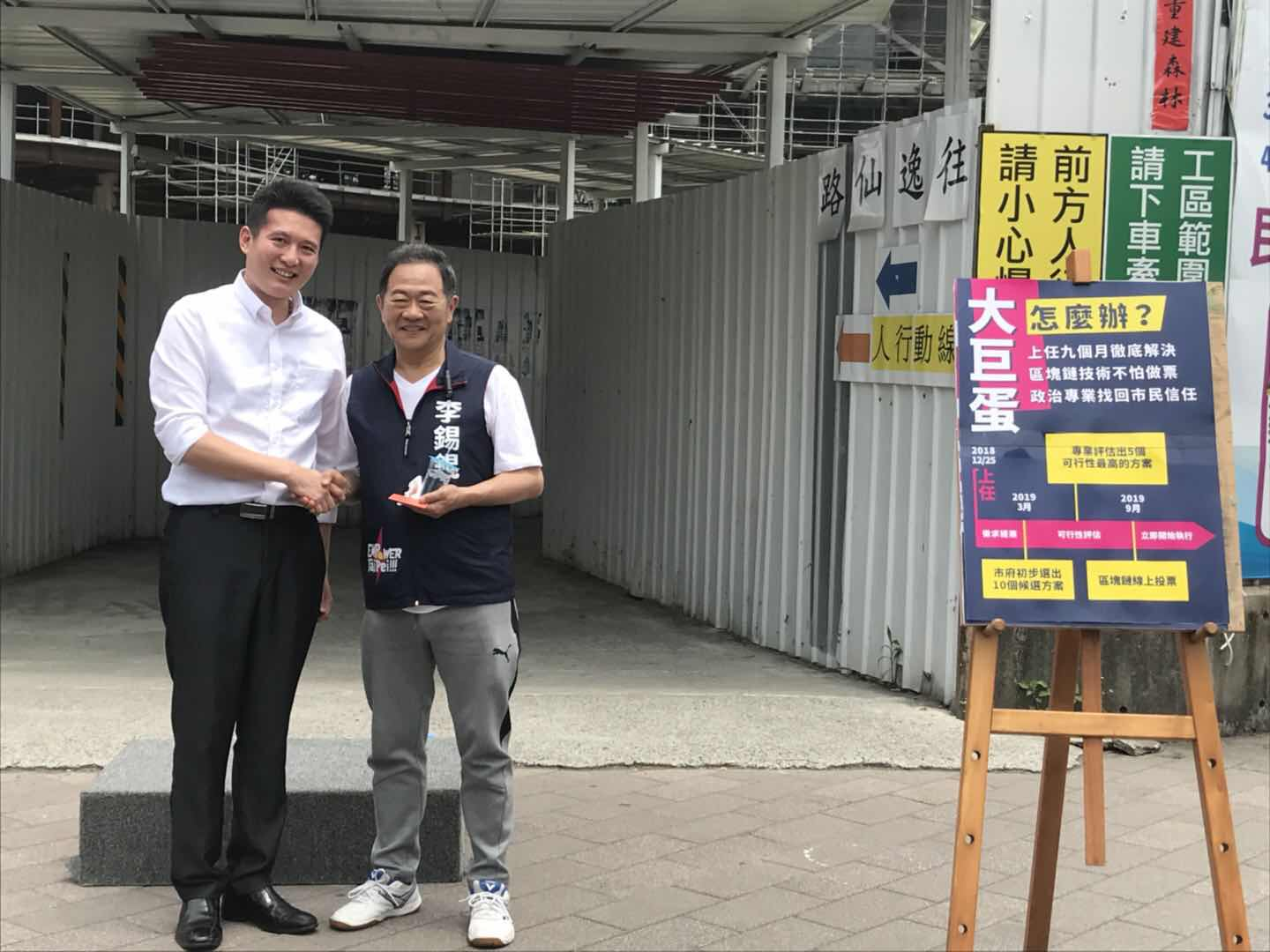 Lee and KaiJun